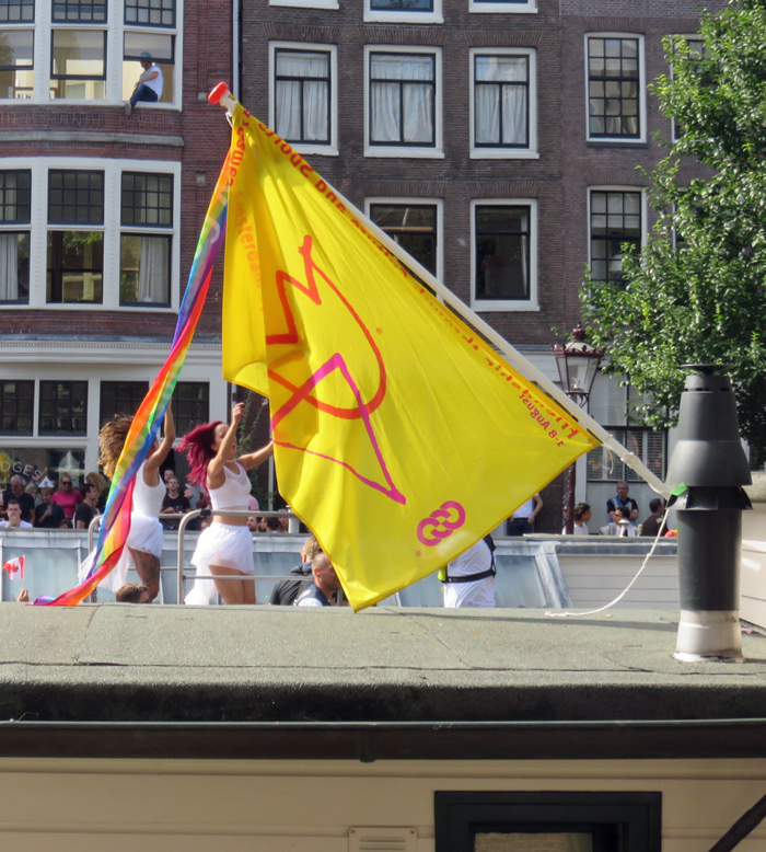 Flag with the logo of the Gay Games V, which were held in Amsterdam in 1998. Here seen during the Canal Parade of Pride Amsterdam in August 2017.